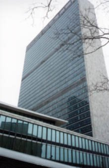 Photographed by Brion Vibber, placed into the public domain. This work has been released into the public domain by its author, Brion VIBBER. This applies worldwide. In some countries this may not be legally possible; if so: Brion VIBBER grants anyone the right to use this work for any purpose, without any conditions, unless such conditions are required by law. Hình:Unbuilding.jpg